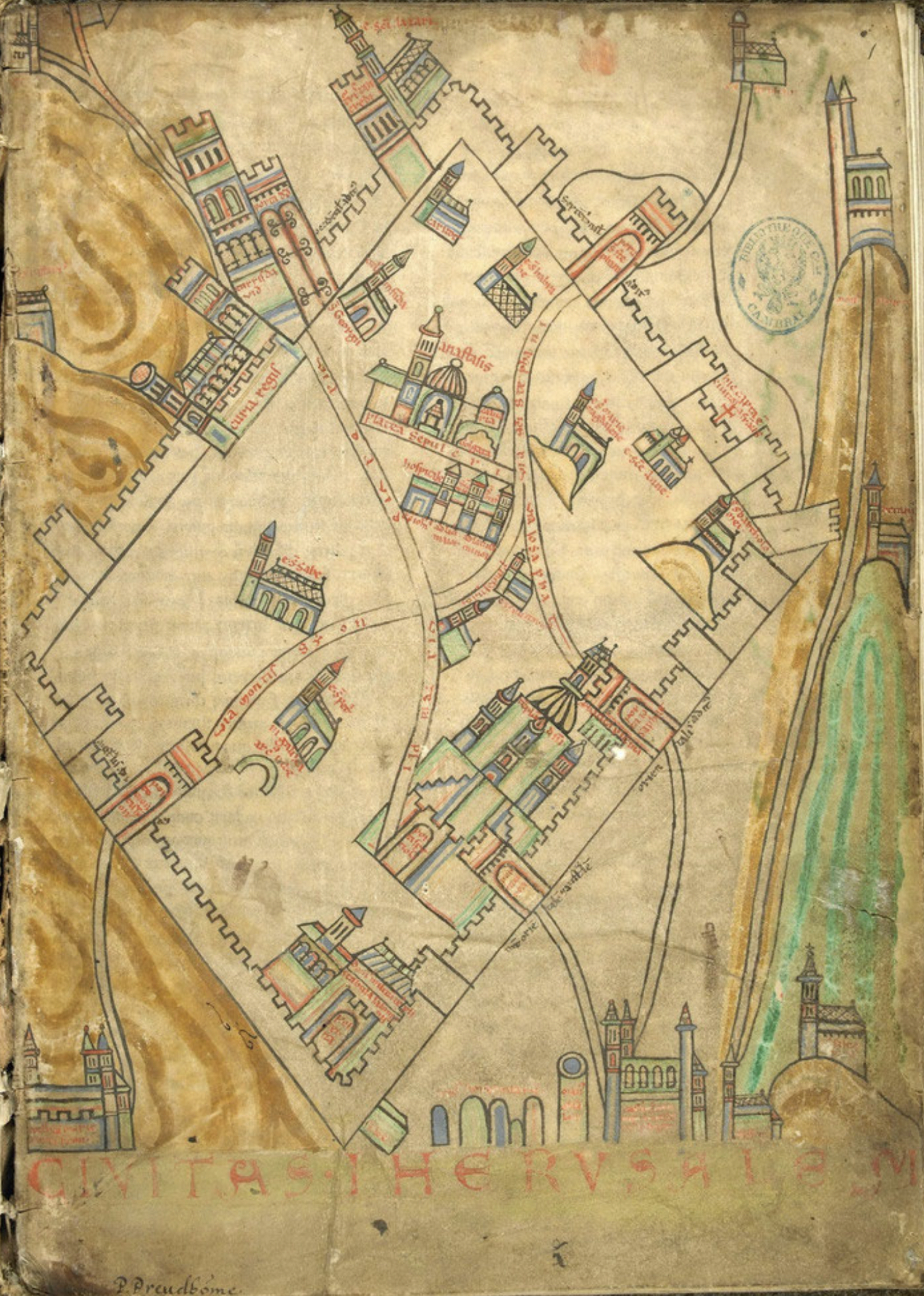 the "Cambrai map" of crusader jerusalem